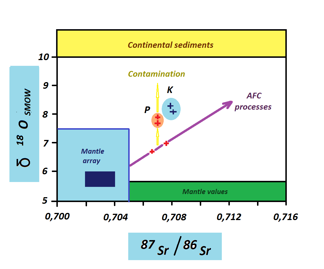 D18O versus 87Sr/86Sr diagram showing the position of the Karawanken tonalites (K) in comparison to the Pohorje magmatites (P) in the Slowenian Alps. The tonalites are more contaminated by crustal magmas.